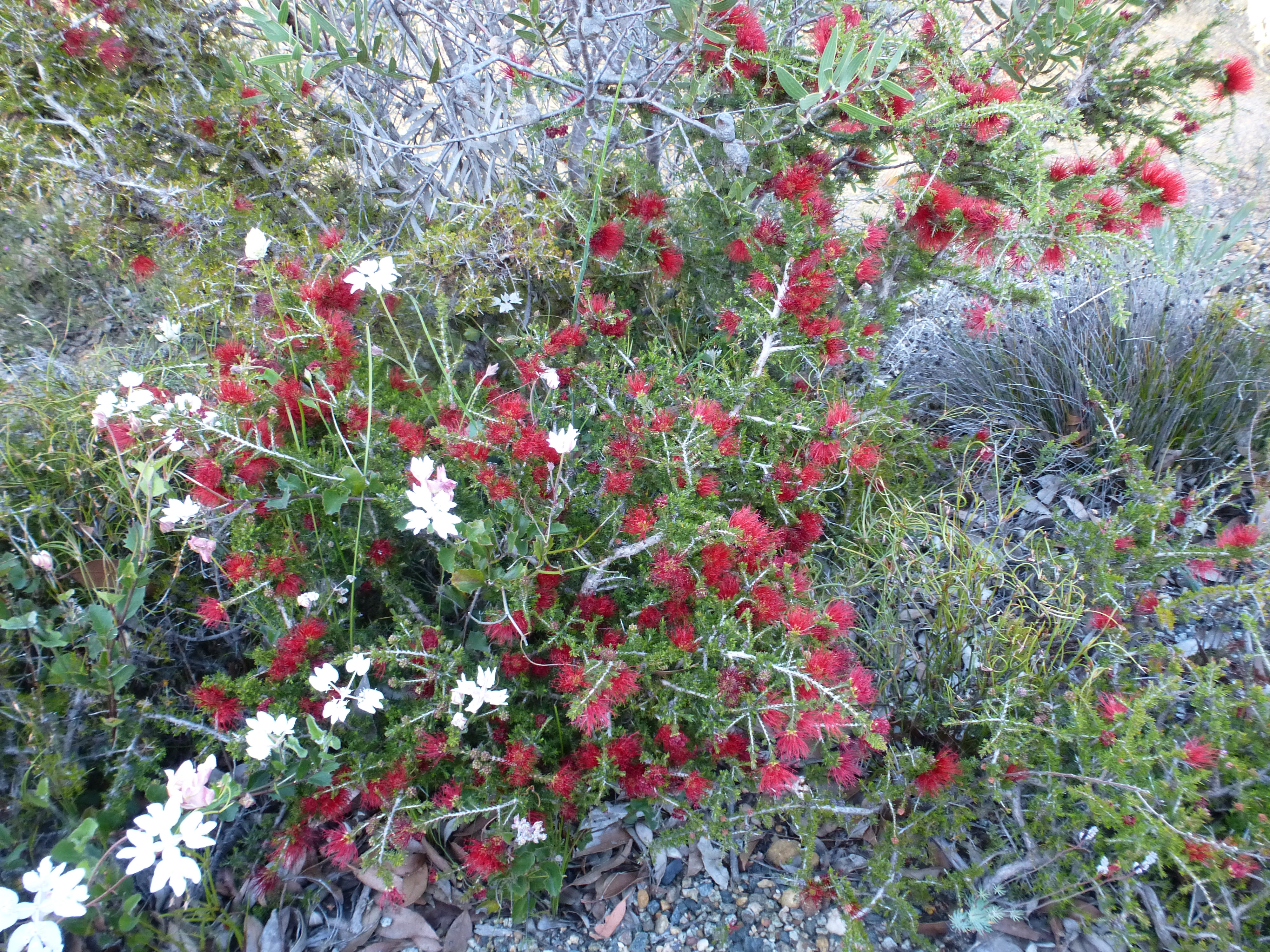 Beaufortia cyrtodonta growing near the Bluff Knoll walking track